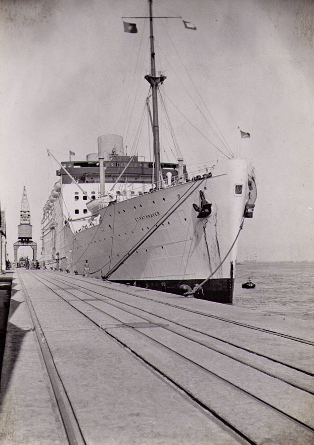 Picture of the P&O passenger liner RMS Strathnaver quayside in Lisbon, Portugal. This photo is part of a small series from an old b&w album, estimated to be taken in the early 1930s.